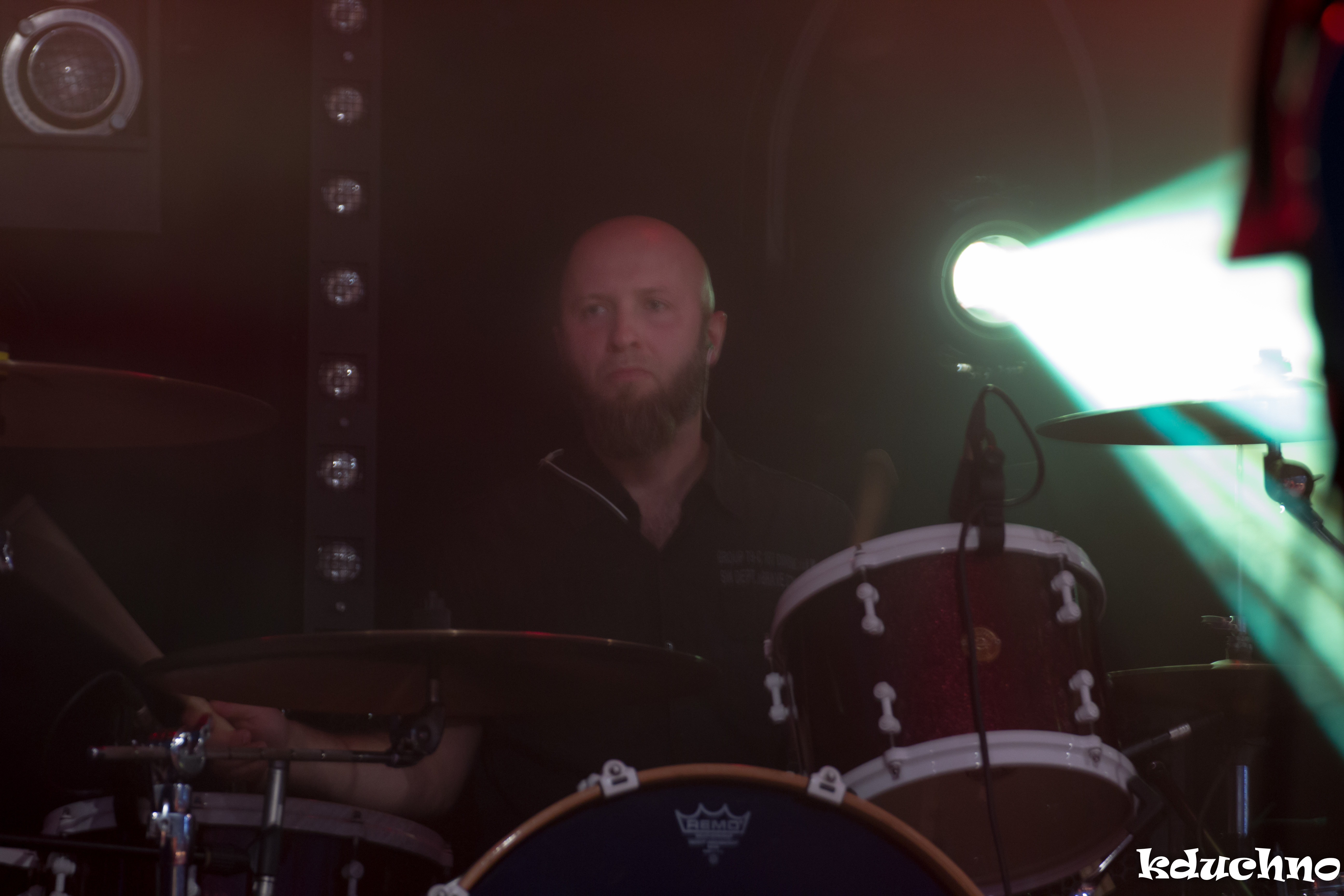 Konrad Ciesielski of Blindead